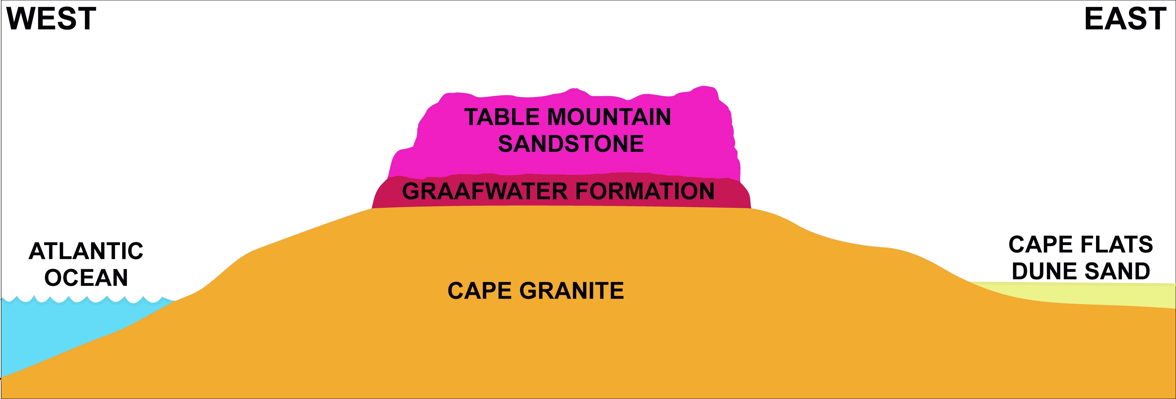 Schematic geological west-east cross section through Cape Peninsula (South Africa) at about the 33° 58' S parallel. Not to scale.